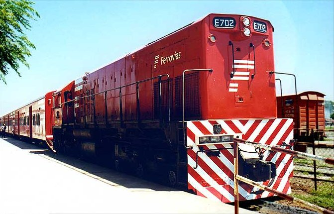 Ferrocarril General Belgrano train painted in the corporate identity of Ferrovías (color, logo).